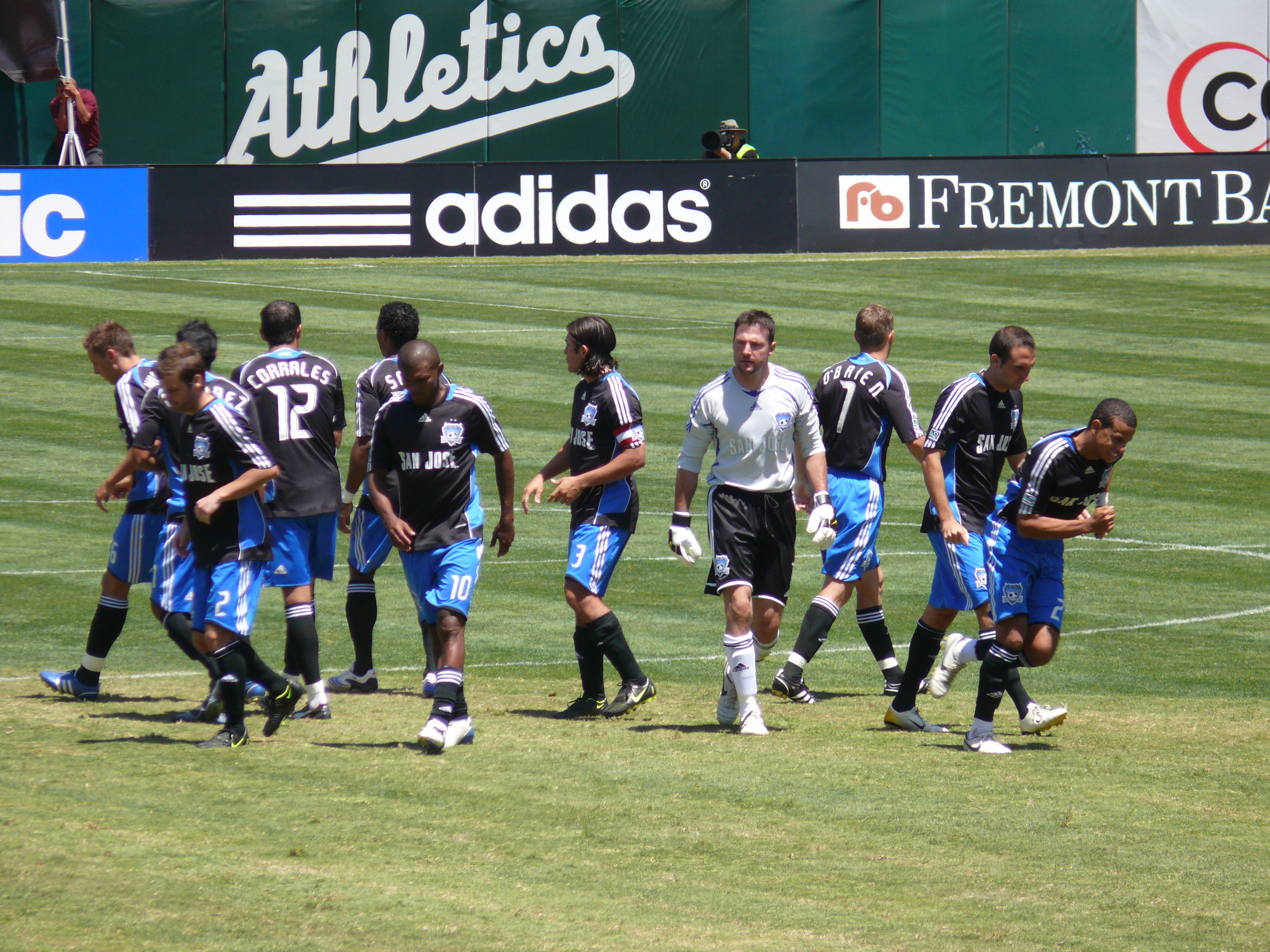 The San Jose Earthquakes take on the hated Los Angeles Galaxy at McAfee Coliseum, Oakland CA, on August 3, 2008.